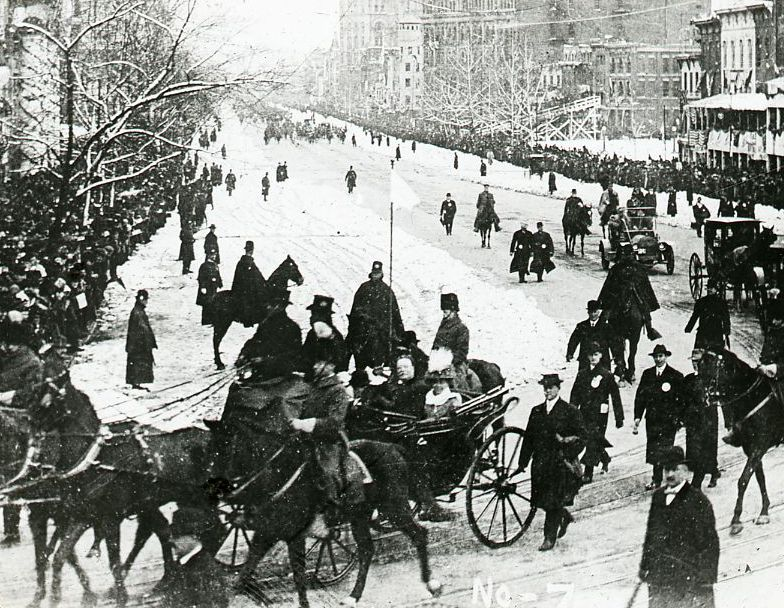 President William Howard Taft and his wife Helen during inaugural parade, March 4, 1909. A snow storm forced the inauguration to take place inside the Capitol and it took 6,000 men half the night to cleared over 500 wagon loads of snow from the parade route.